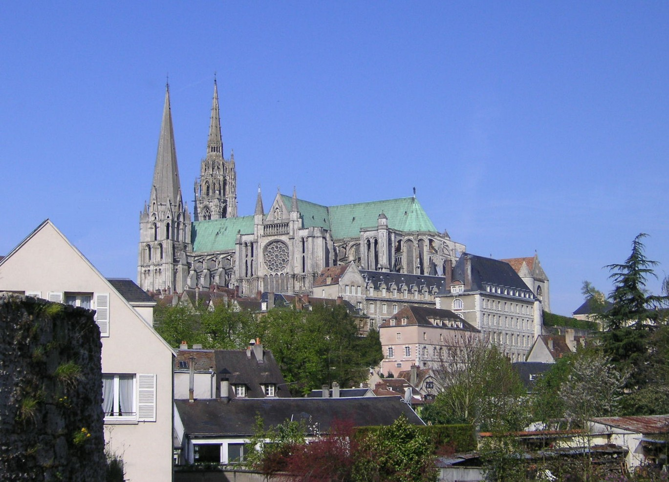 Chartres Cathedral from the South East